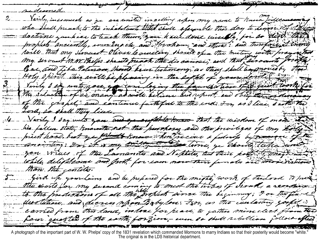 A photograph of the important part of W. W. Phelps' copy of the 1831 revelation which commands Mormons to marry Indians so that their posterity would become "white." The original is held by the historical department of The Church of Jesus Christ of Latter-day Saints.